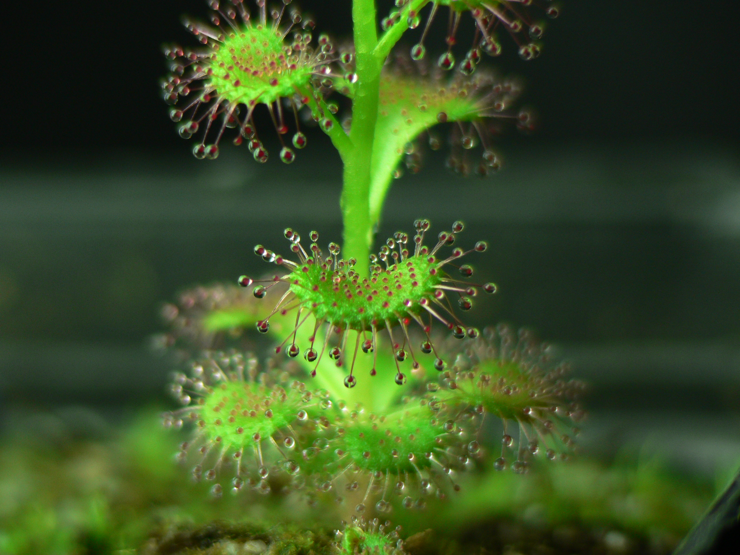 The author licensed this picture in a letter to the uploader as follows: "Ich lizensiere die Bilder [..] unter der GNU-FDL." (Translation: "I license the pictures [..] as GNU-FDL.") Detail of Drosera platypoda habit